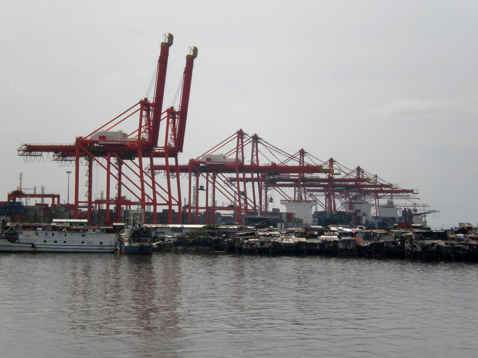 Cranes tower over many informal settlers at the Manila North Harbor